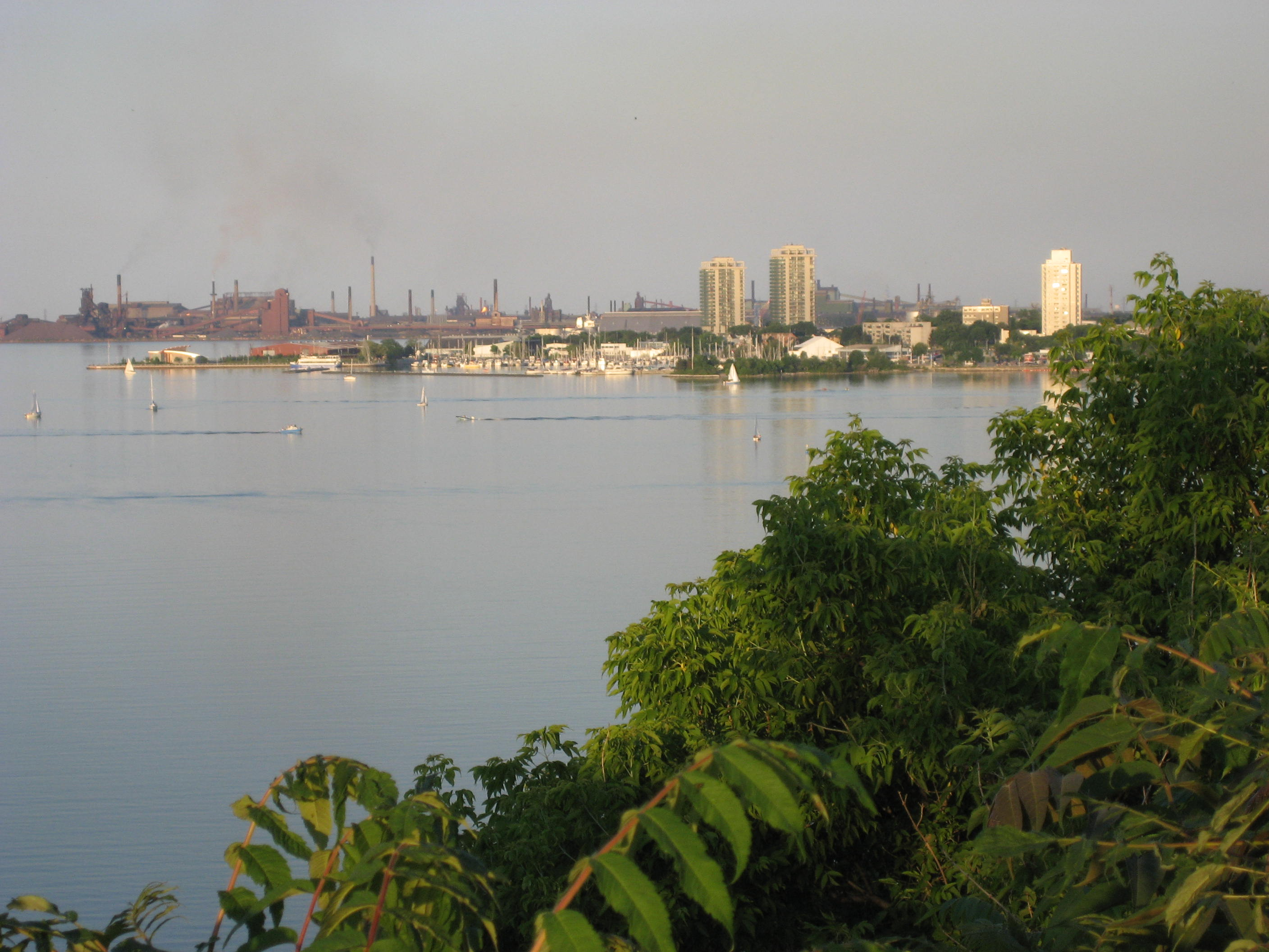 Hamilton Harbour, view from York Boulevard at Harvey Park, just West of Dundurn Park, Hamilton, Ontario